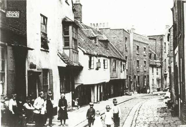 Old photograph of Hog Lane in Woolwich, which formed the approach to Woolwich Ferry. The street was partly demolished shortly after this photograph was taken. Some of the houses must have been very old.